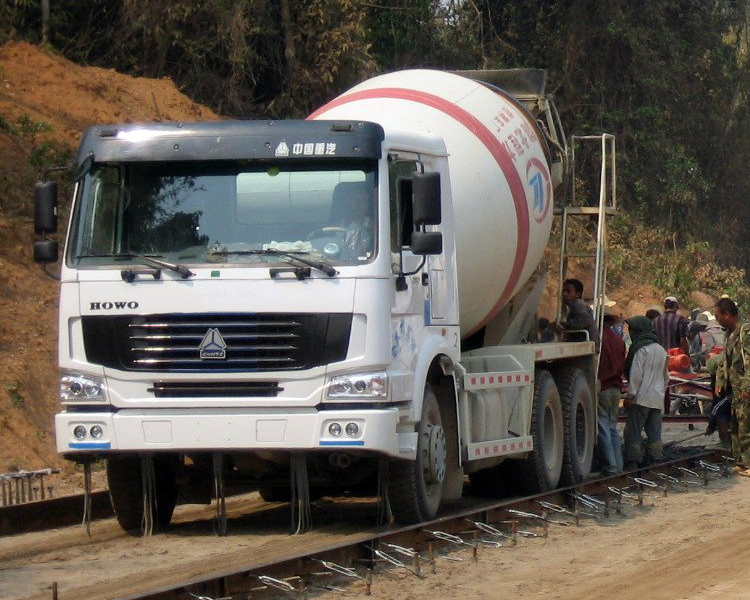 Chinese HOWO cement mixer in Bokeo, Laos, during construction of hwy 3